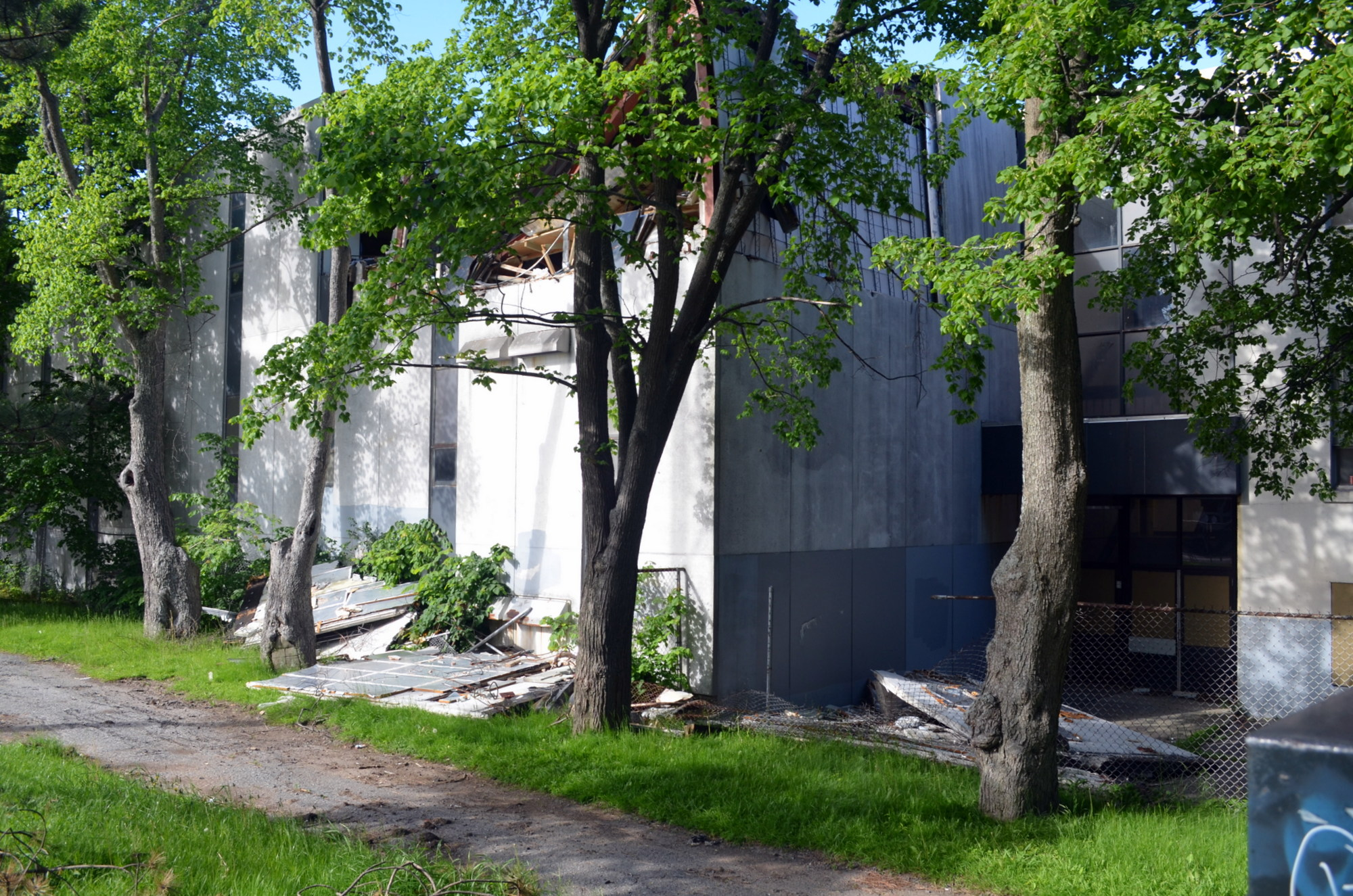 The 2015 roof collapse at St. Patrick's High School, Halifax, from Quingate Place.